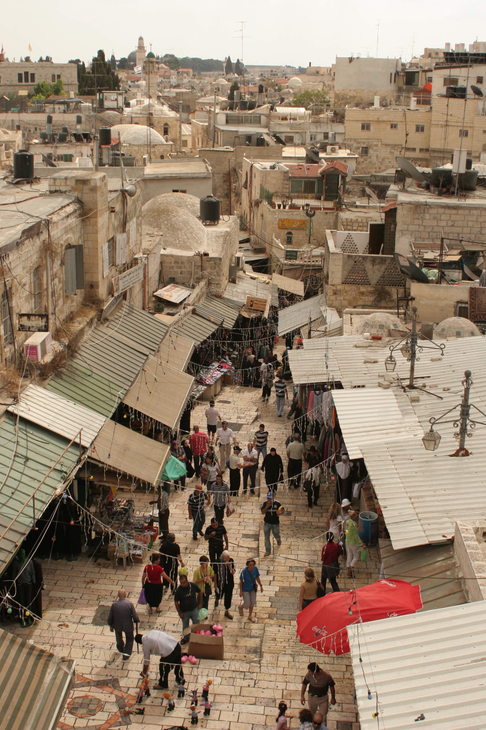 Old Jerusalem, muslim quarter, Al-Wad street (view from ramparts walk, top of Damascus Gate))IMG_4564 Jerusalem